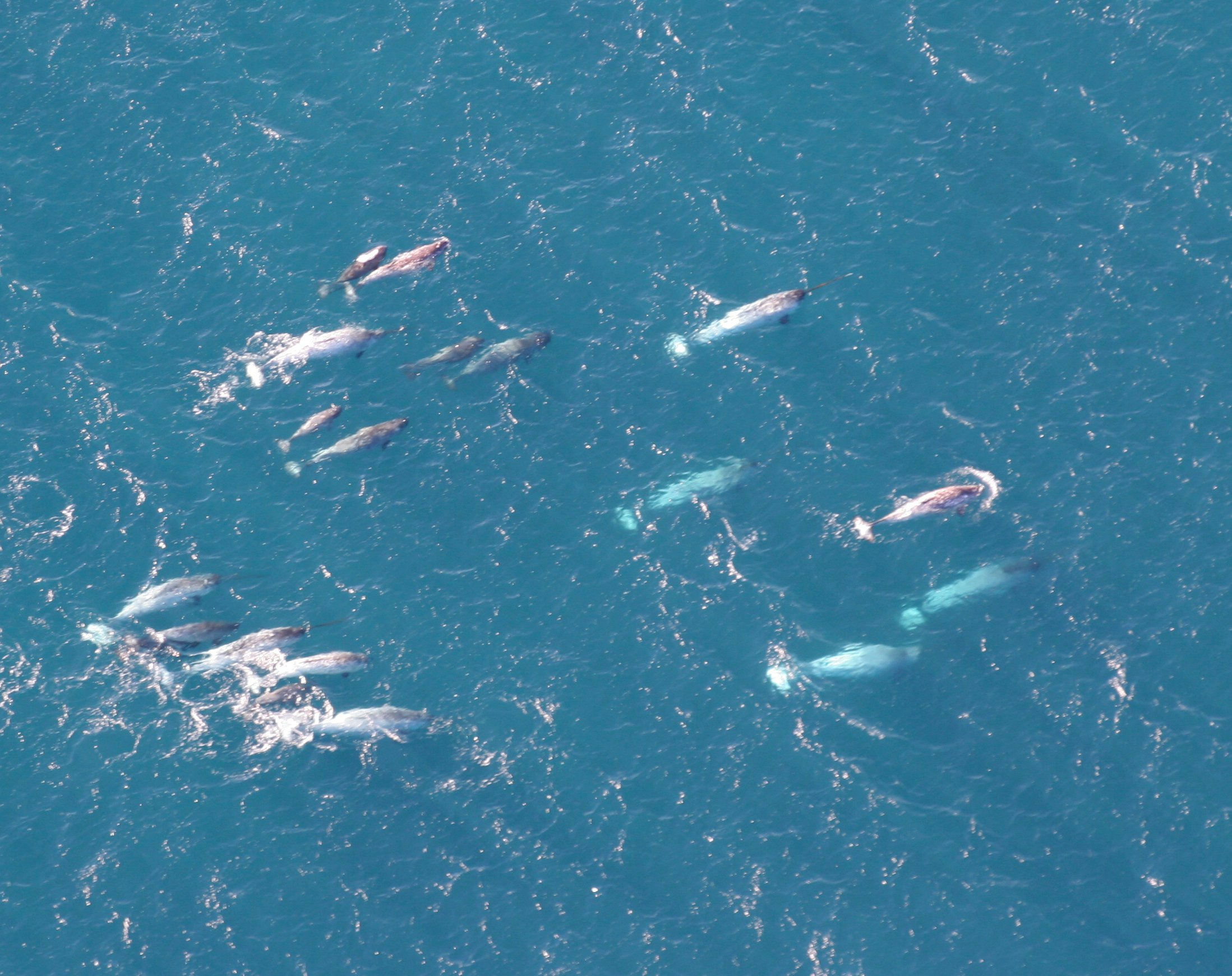 A pod of narwhals (Monodon monoceros) off Greenland. Note the long single tusks on many of these small whales.